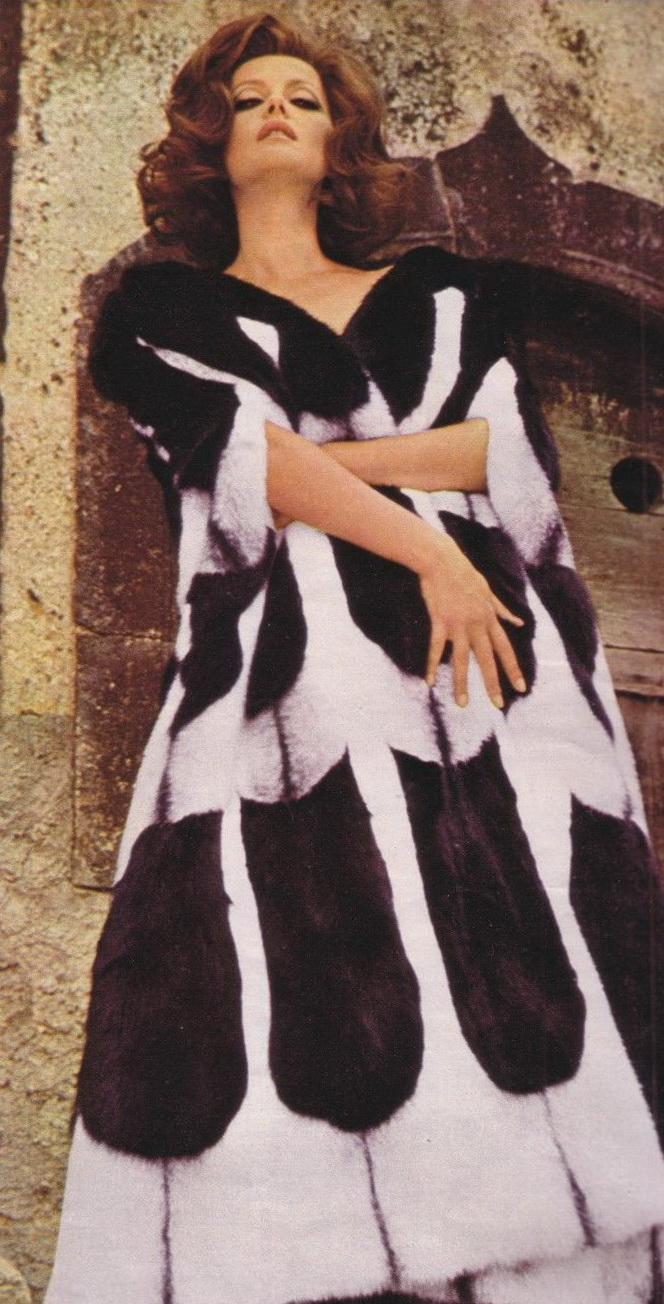 Italian actress Virna Lisi